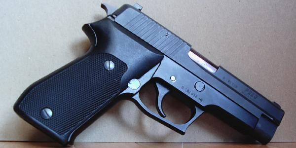 SIG P220 photographed by the Epopt